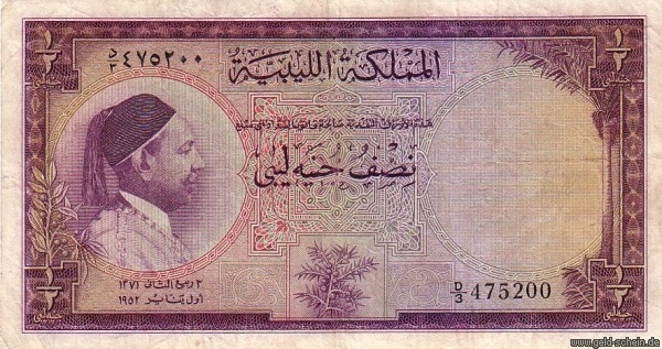 Libyen: P-15, 1/2 Pound